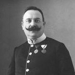 Depicted person: Julius Fučík – Czech composer and conductor of military bands